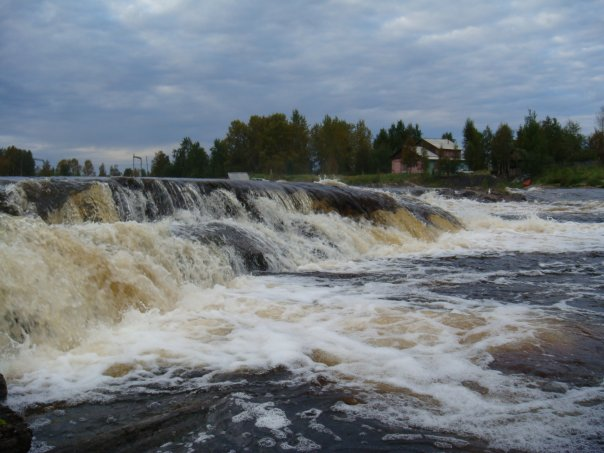 Vyg River